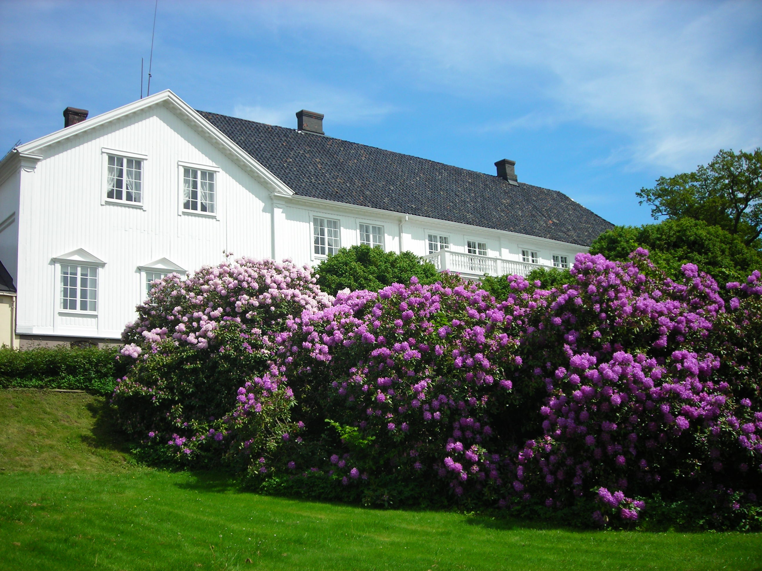 Picture of Rød Manorhouse in Norway